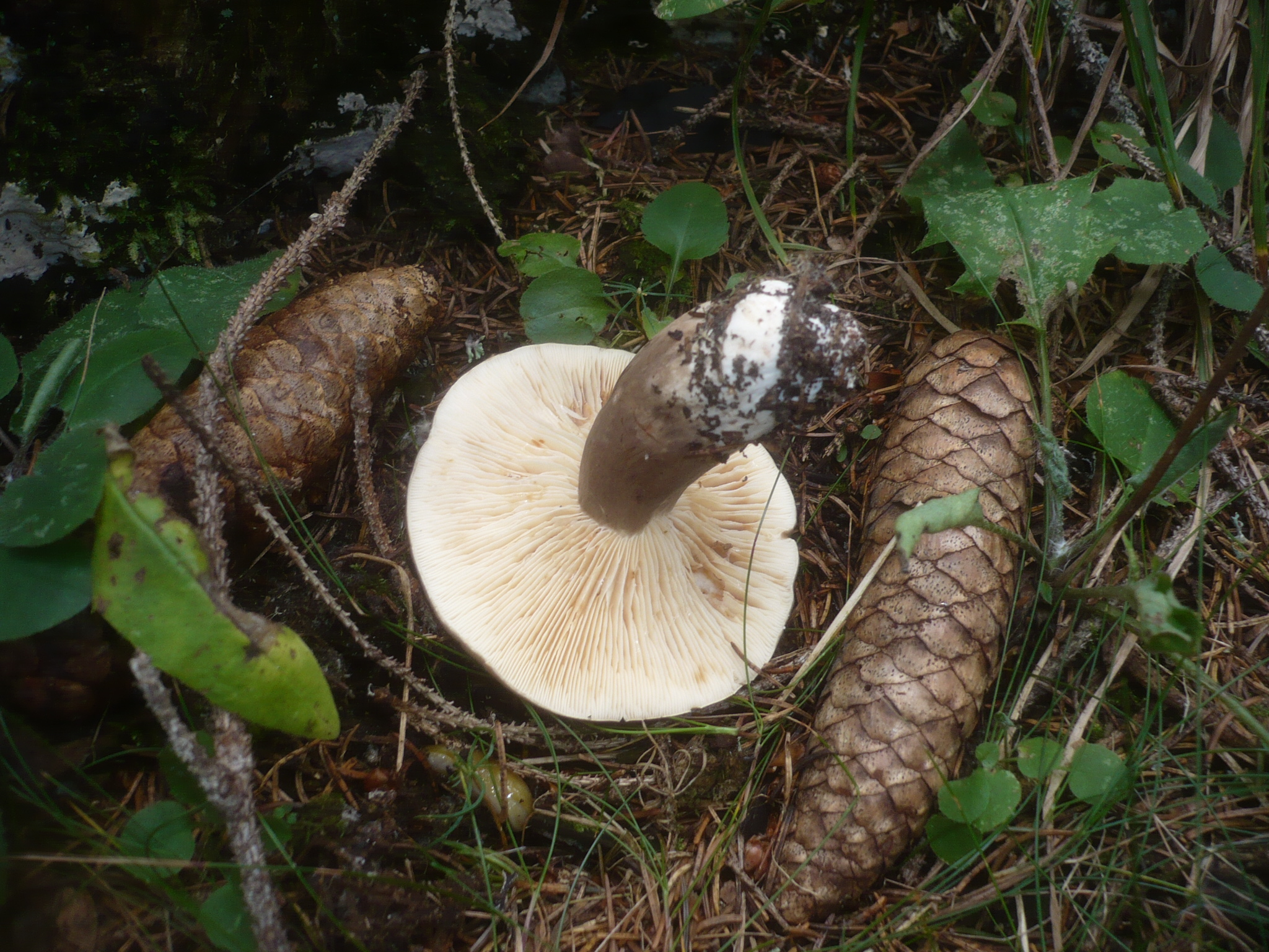 Lactarius picinus Fr. Image location: Auf der Schanz, Fischbach, Bezirk Weiz, Styria, Austria Recognized by sight: acidic coniferous moutaineous forest with spruce, fir, larch and pine For more information about this, see the observation page at Mushroom Observer.